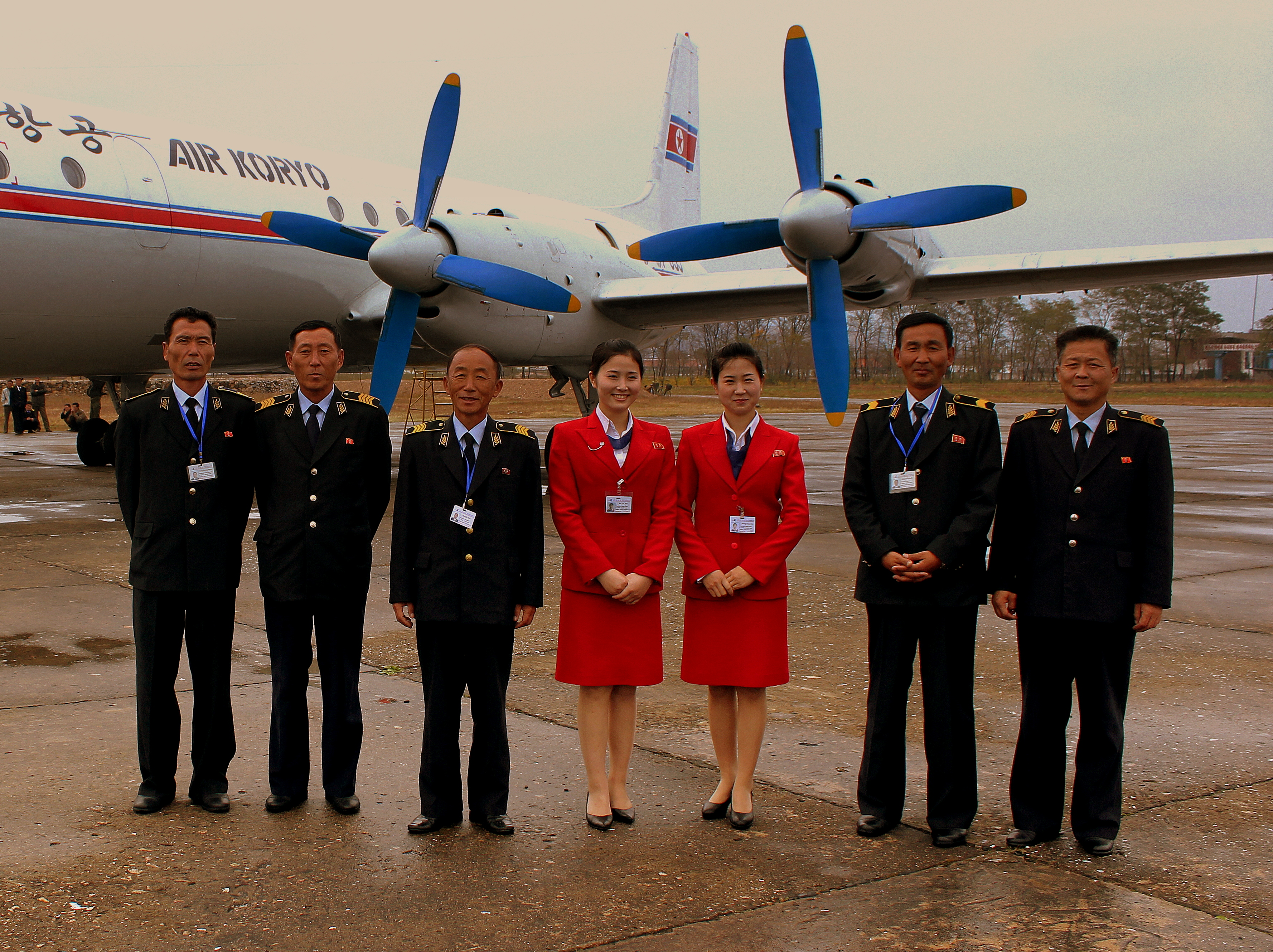 THE CREW VERY KINDLY LINED UP FOR A PHOTO SHOOT, IN FRONT OF THIER BEAUTIFUL IL18 AT MT CHILBO